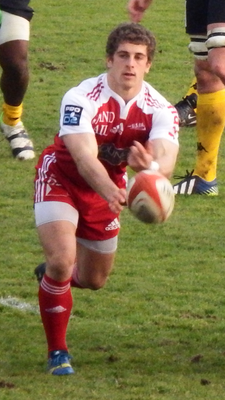 2013–14 Rugby Pro D2 season — 22 December 2013, Stade Maurice Boyau. Match between: US Dax — Stade Montois